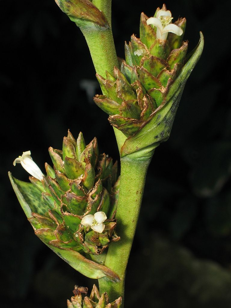 Guzmania bismarckii in cultivation at the Botanical Garden of Heidelberg, Germany.